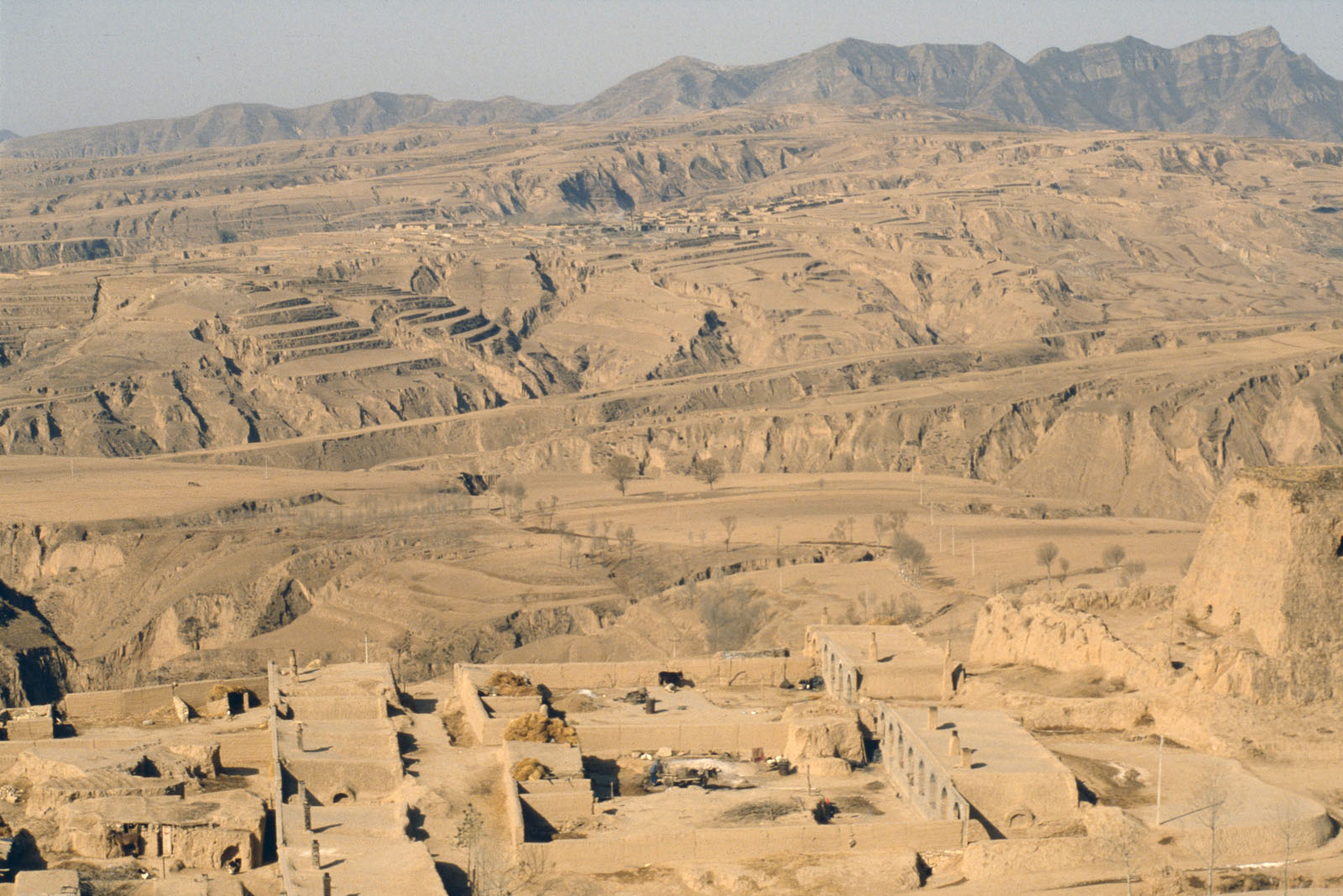 Loess landscape near Hunyuan, Datong, Shanxi Province, China